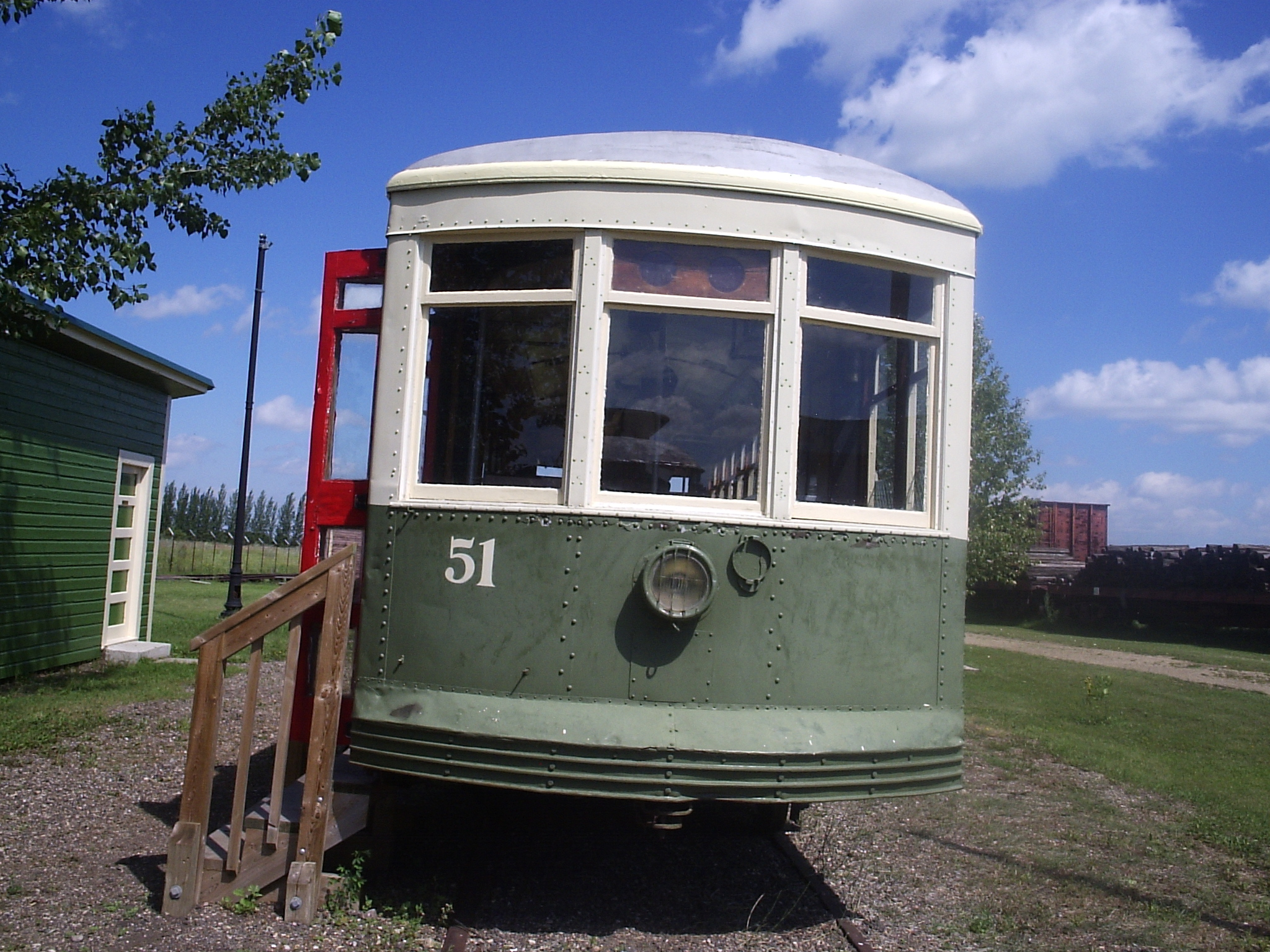 Saskatoon Municipal Railway streetcar No.51 at Saskatchewan Railway Museum.